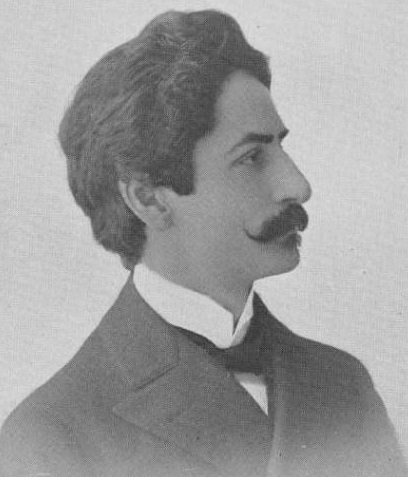 Edward T. Noonan (Illinois Congressman)